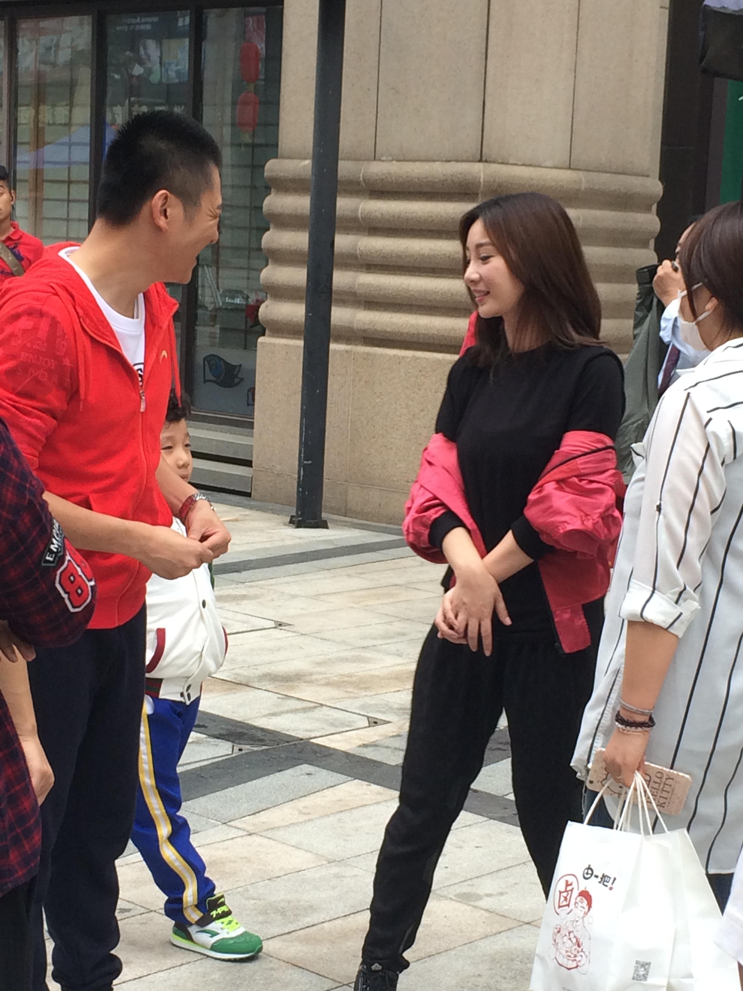 Ada Liu and Peng Yu were filming the comedy television series A First Forward in Changsha, Hunan, China.